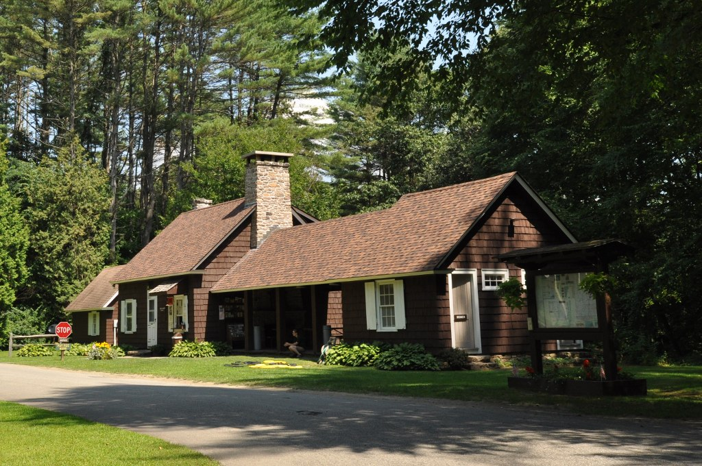 Wilgus State Park, Weathersfield, Vermont, entrance station. Built in the 1930s by the CCC.